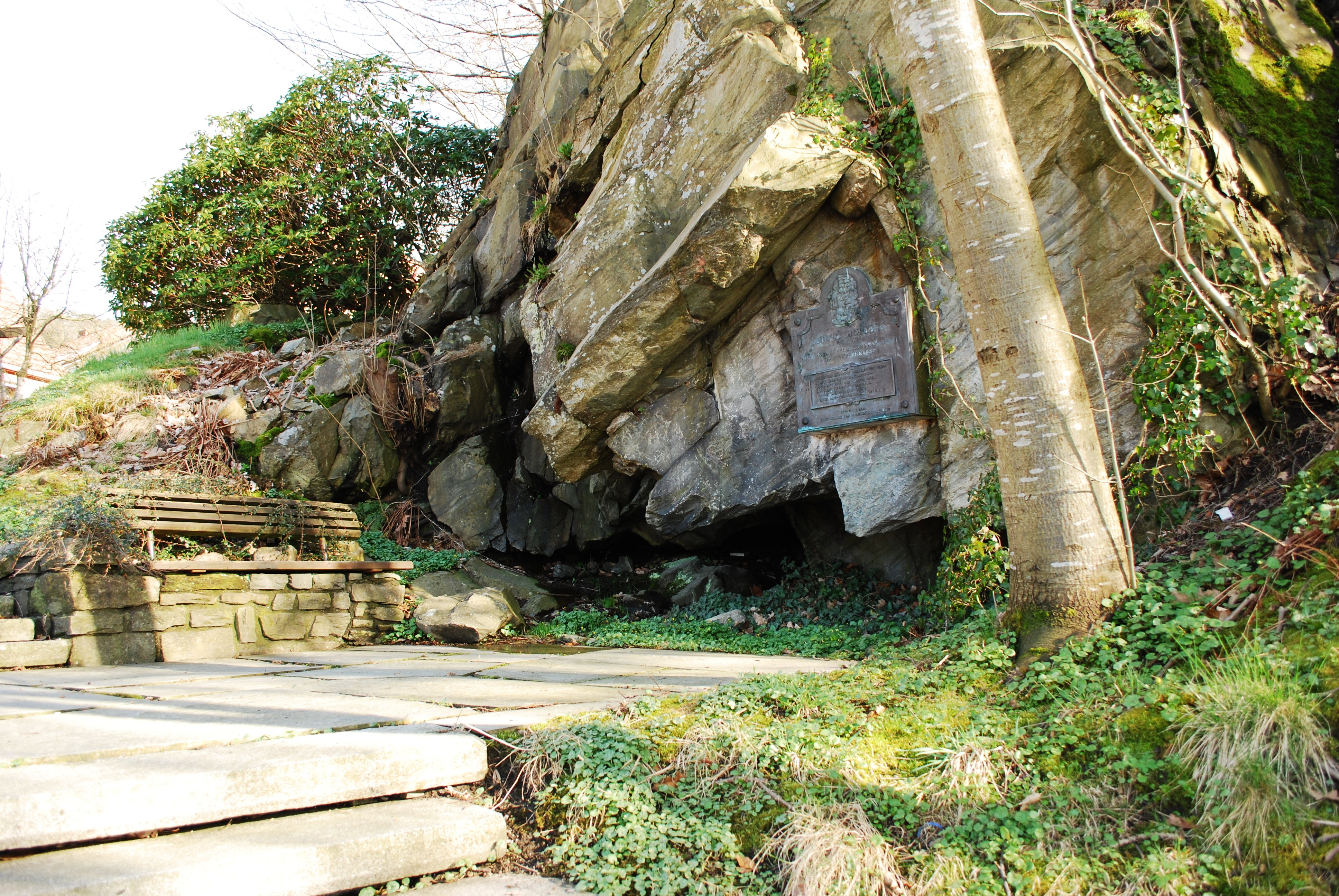 Description= Mareminehollet